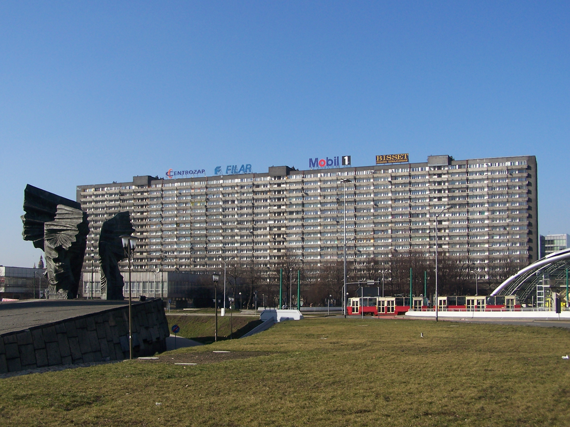 Superjednostka - very big builiding in Katowice (Poland).